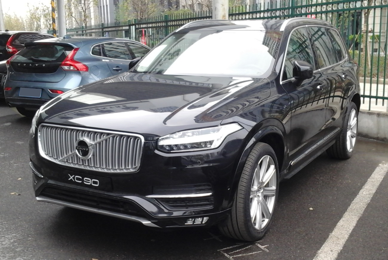 Volvo XC90 II photographed in Shanghai, China.